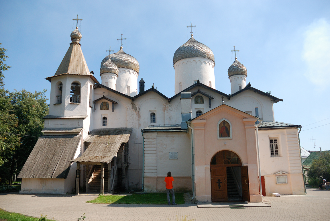 Veliky Novgorod, Church of Saints Philip the Apostle and Nicholas.